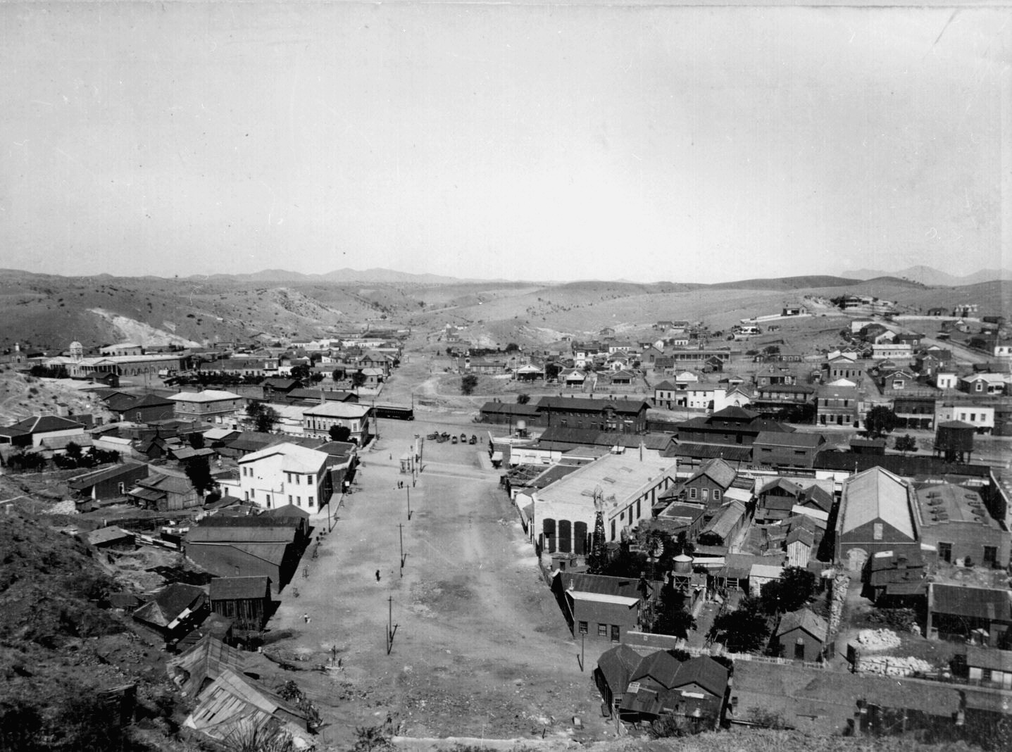 "Nogales, Santa Cruz Co. Showing boundary line between Arizona and Mexico." General view of center of town from hillside, looking west along International Street, ca. 1898~99. source Note - file originally uploaded by User:Darwinek on 2005-06-21